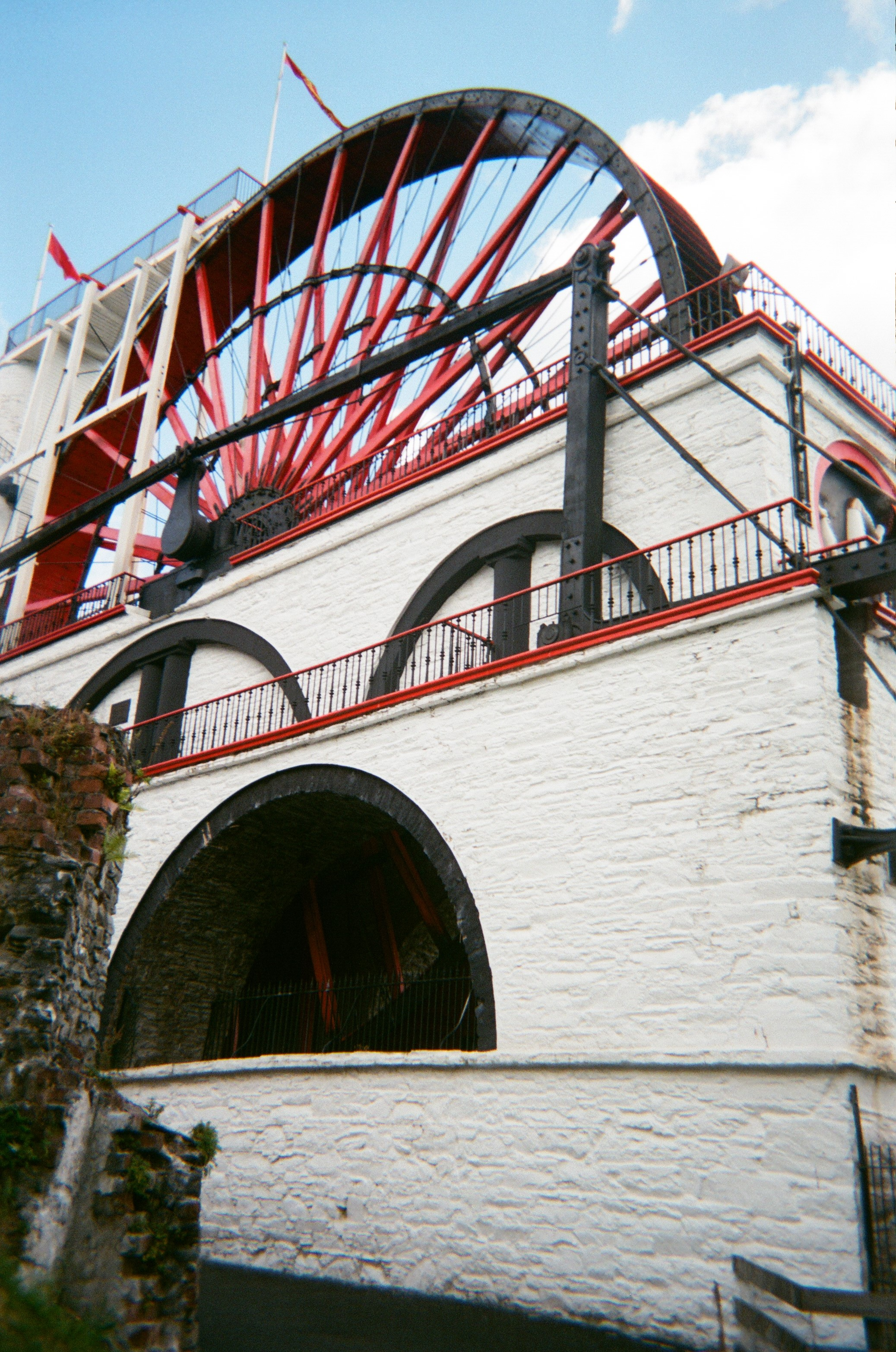 The Great Laxey Wheel, seen from the side